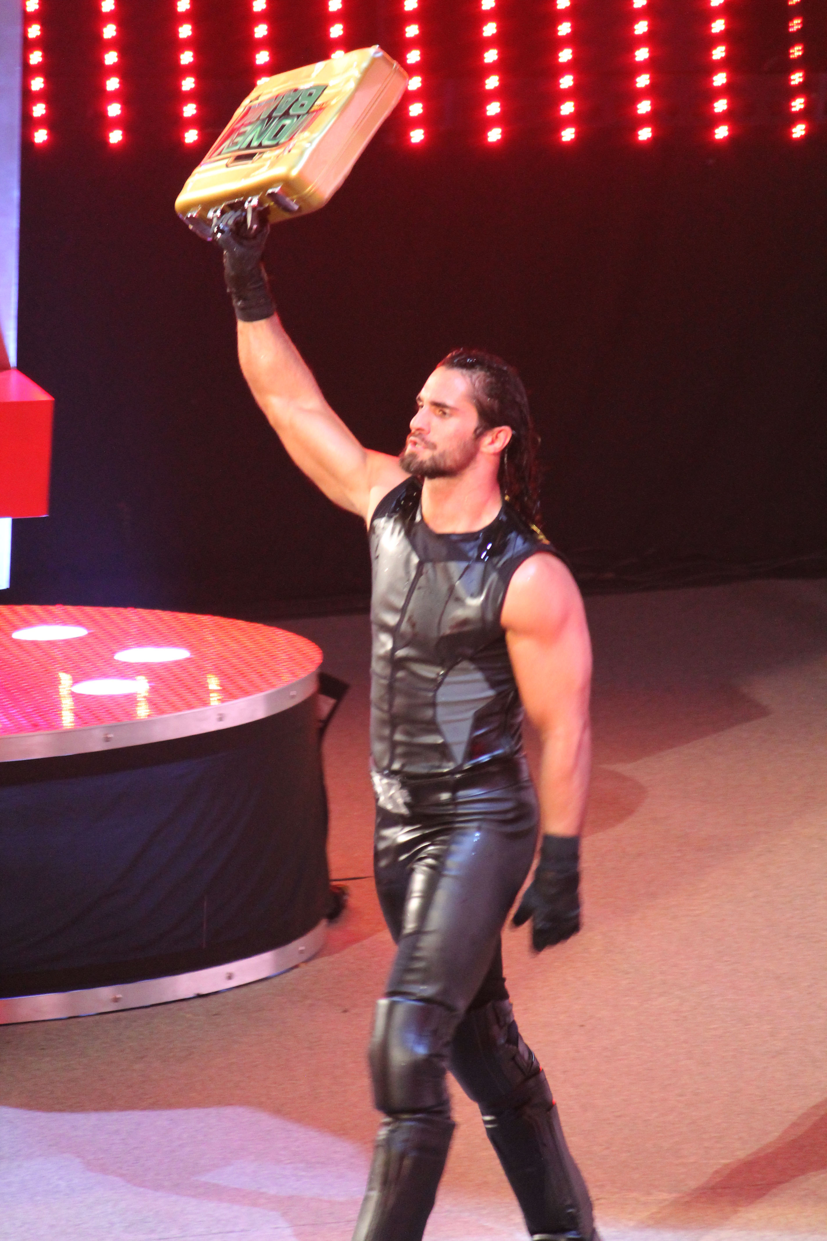 Seth Rollins, with the WWE Money in the Bank briefcase, at WWE's Night of Champions on September 21, 2014. Boosted contrast from the original.